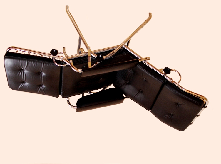 Thonet Siesta Medizinal (reclining chair) modell 1964 for „Thonet Frankenberg“ by Hans Luckhardt.